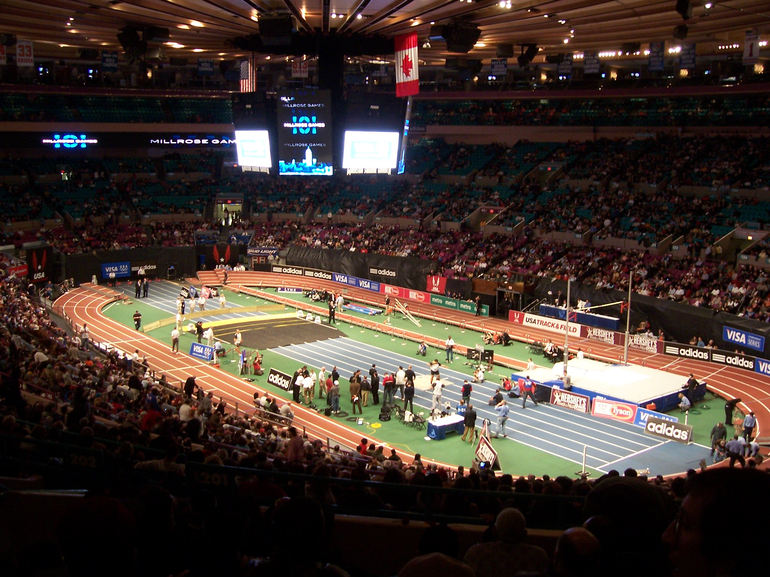 Millrose Games 2008 Madison Square Garden New York Track and field Indoor